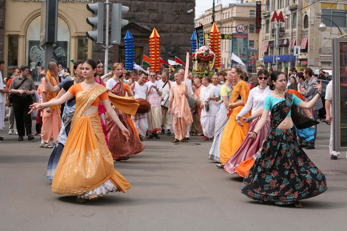 Russian Hare Krishna devotees singing and dancing on the street in Moscow